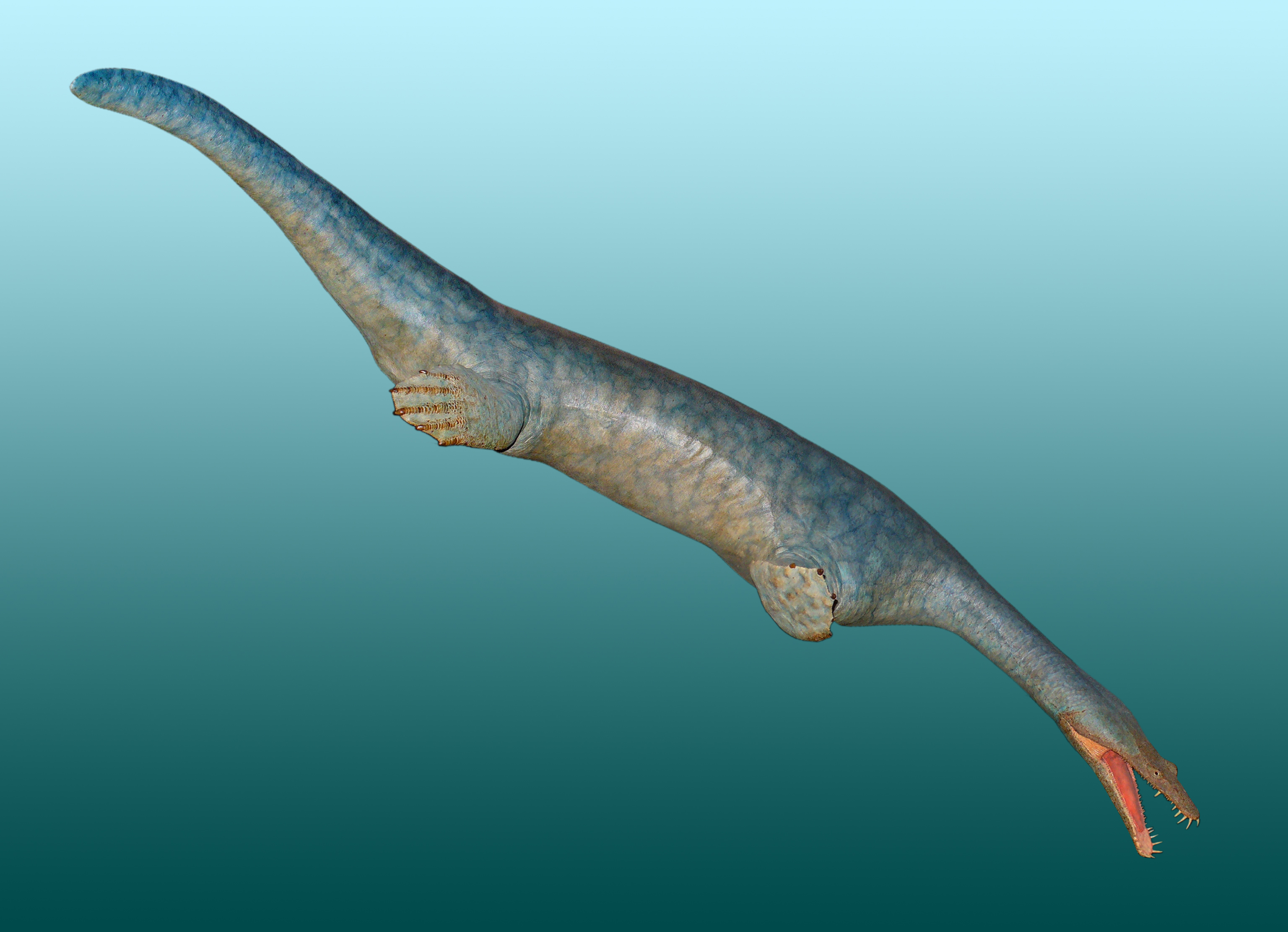 Model in life size (about 3 m) based on fossils from the Middle Triassic, Southwest-Germany; Staatliches Museum für Naturkunde Karlsruhe, Germany. Background changed